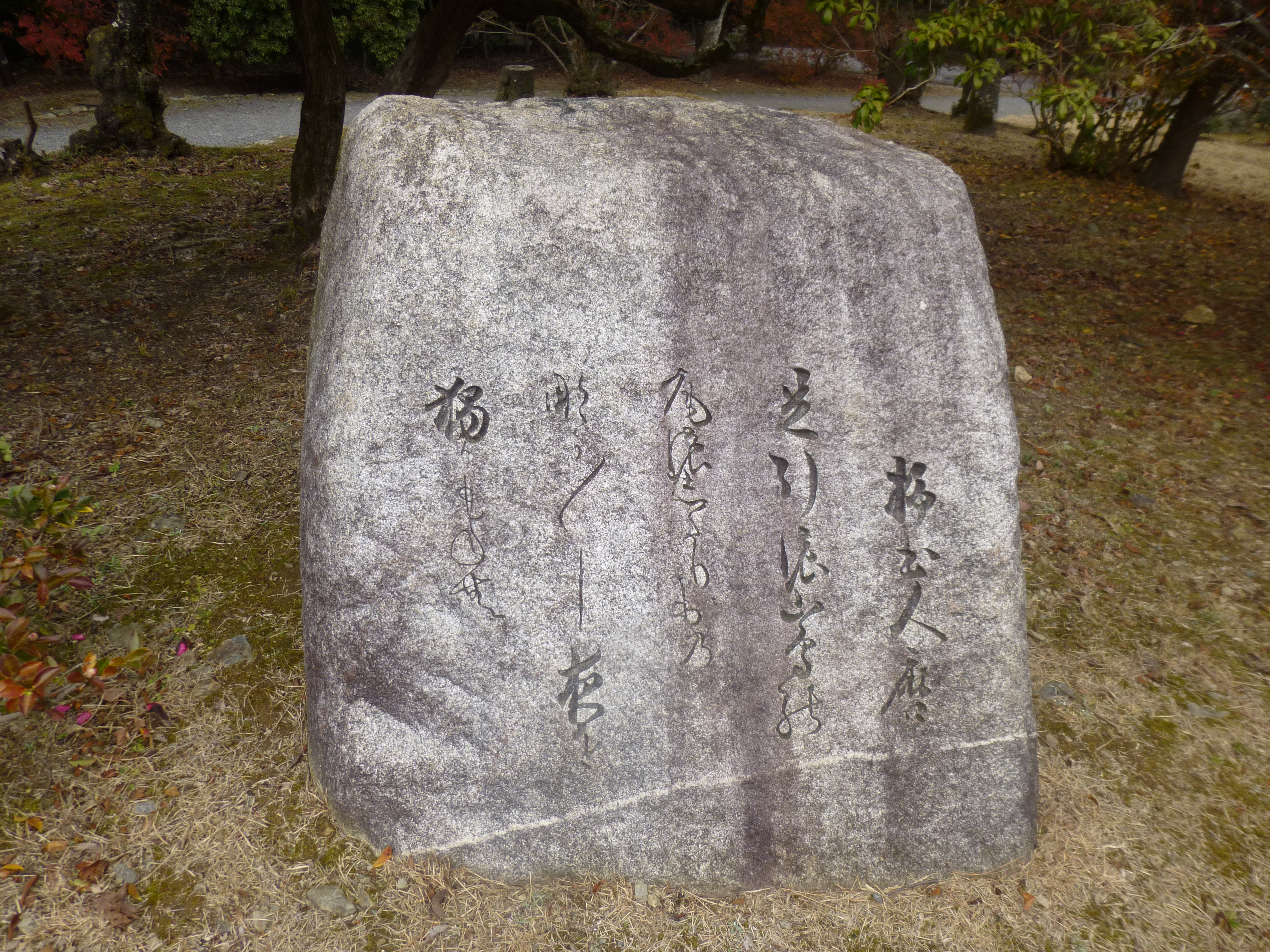 My photo of the poem-stone commemorating Kakinomoto no Hitomaro's poem ashibiki no yamadori no o no shidari o no naganagashi yo o hitori kamo nen in Kameyama Park, Arashiyama, Kyoto. The calligraphy was originally by Hon'ami Kōetsu (1558-1637). Photo taken by Ian Suttle, on 31 December 2014.